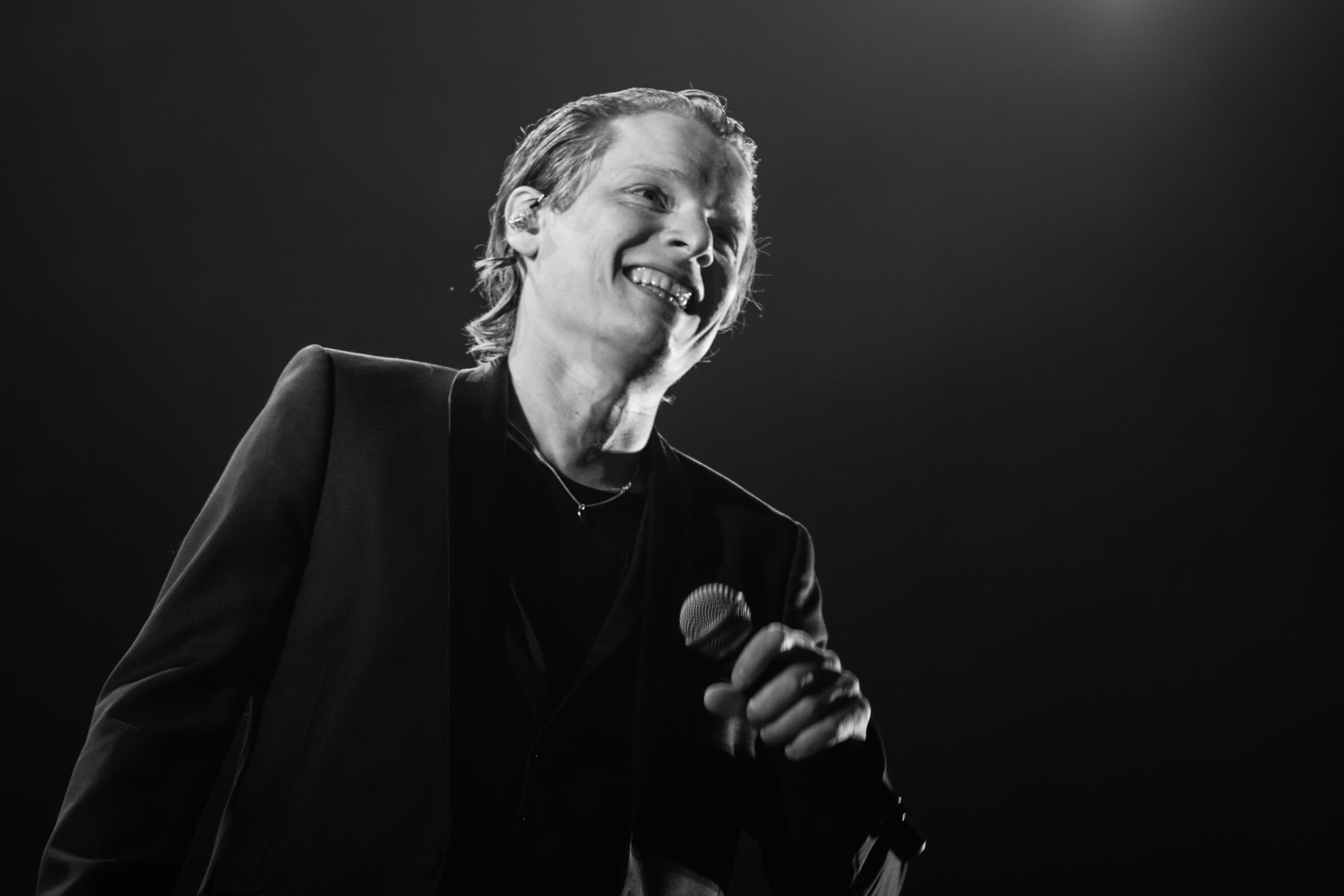 Follow me on facebook Twitter : @didyPhotography All the photographies I've made are now under CC0 (Creative Commons Zero) CC0 - learn more To the extent possible under law, Eddy BERTHIER has waived all copyright and related or neighboring rights to Bénabar @ Brussels Summer Festival 2012. This work is published from: France.